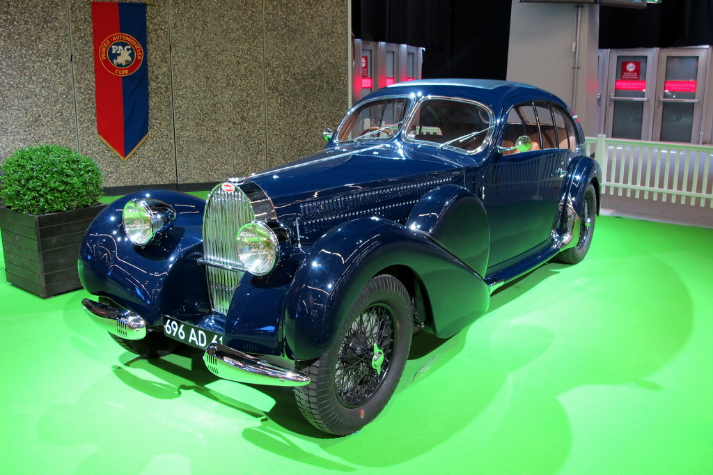 Bugatti Type 57 series 3 (1938, #57625) with streamlined body; possibly by Gangloff. Could have been built as a design study for the planned Type 64. AutoRAI 2011 Amsterdam